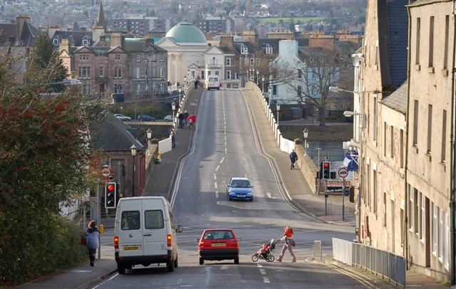 Perth, Scotland: A view from Bridgend's East Bridge Street and, further on, West Bridge Street, which traverses Smeaton's Bridge. Gowrie Street is to the left; Main Street to the right.